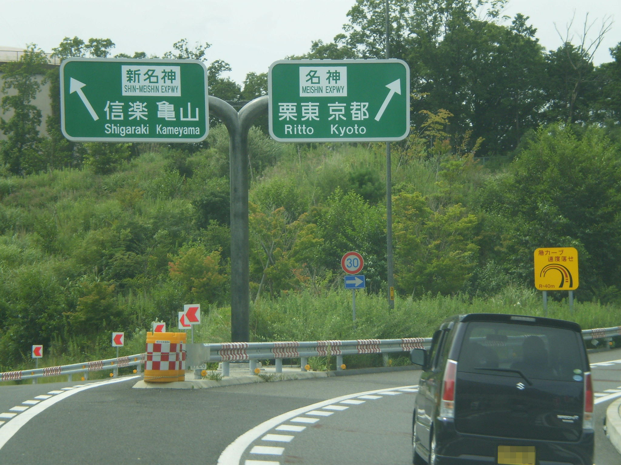 Kusatu-Tanakami interchange of Shin-Meishin Expressway. I took this image at Noji-cho Kusatsu City Shiga Pref., Japan.